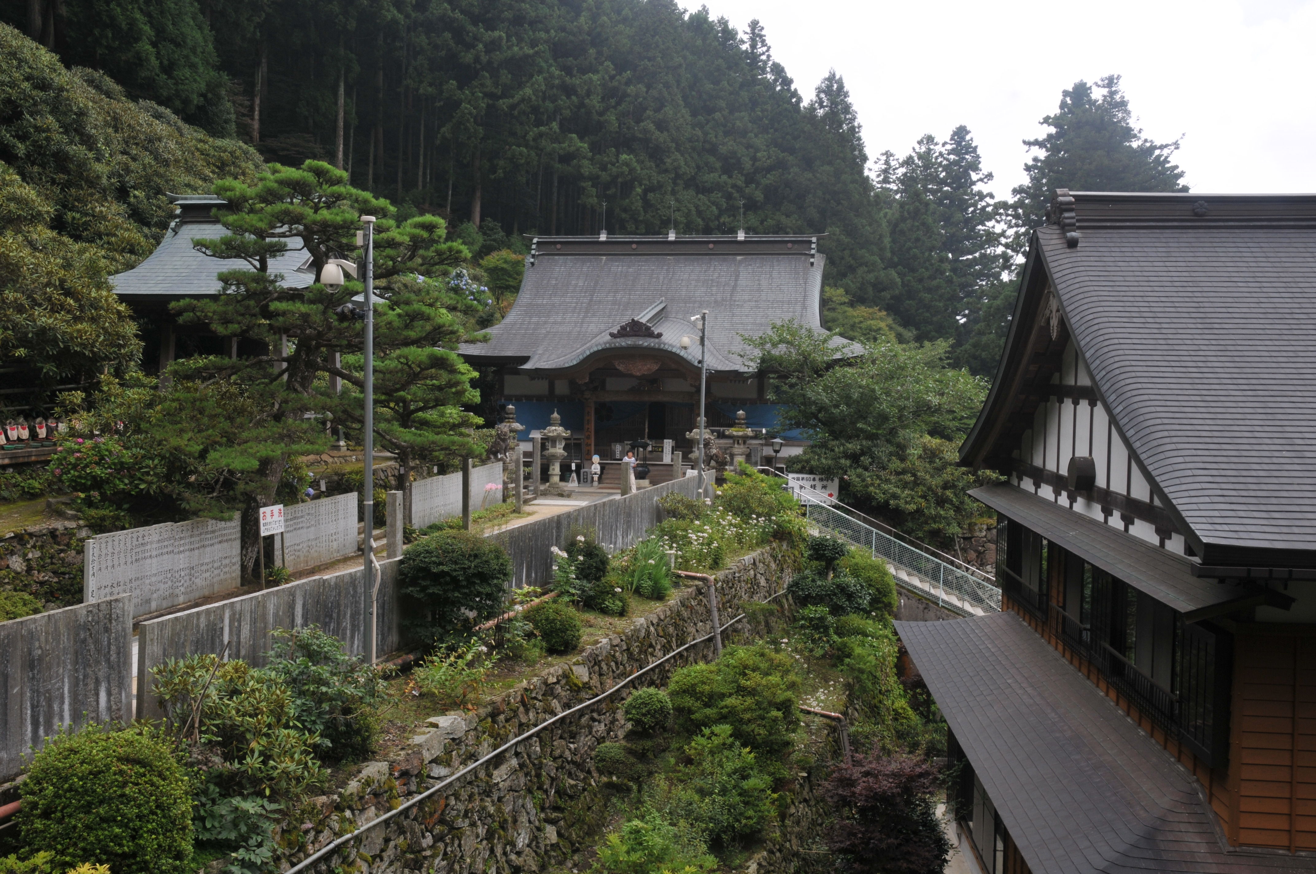 Yokomine-ji temple